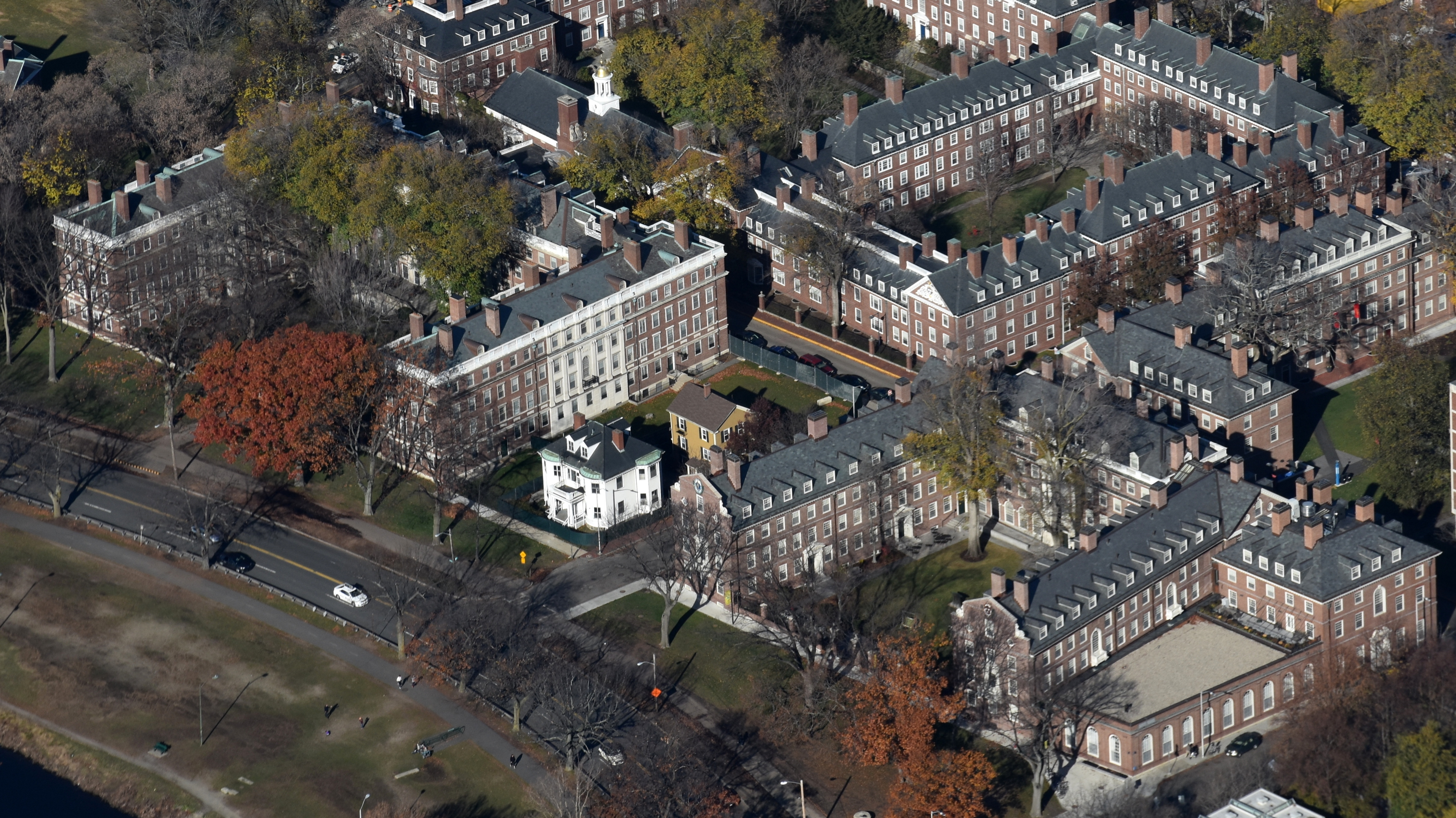 View of Harvard Houses on the Charles River, including Winthrop's Gore Hall (left), Leverett's McKinlock Hall (right), and Lowell (top). Extracted from larger image